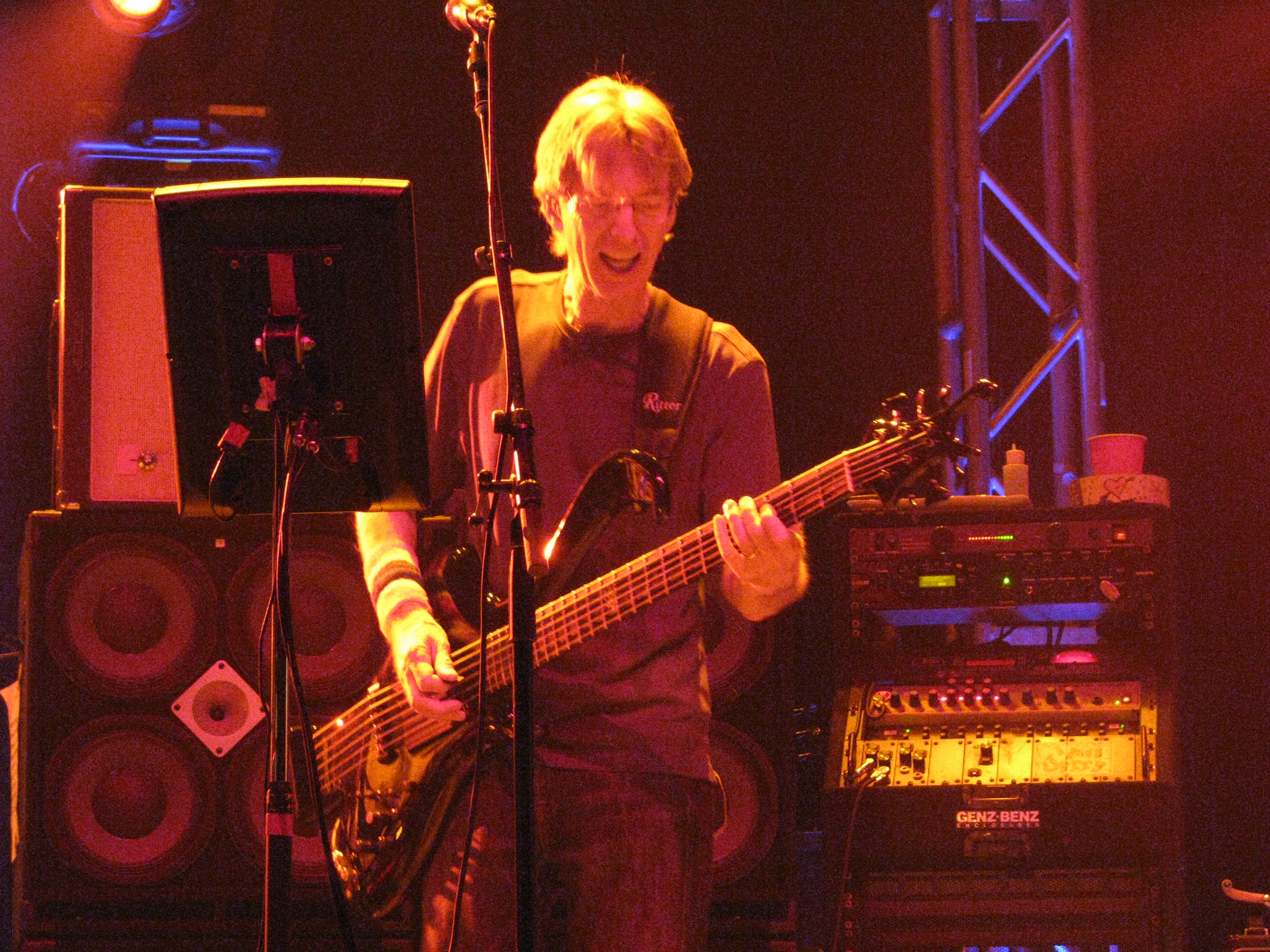 Phil Lesh & Friends - July 3, 2008 - The Pageant, St. Louis Phil Lesh "EYE OF HORUS" by Jens Ritter Instruments "6-String Jupiter with a custom String Spacing (Bridge 74mm - Nut 44mm)"